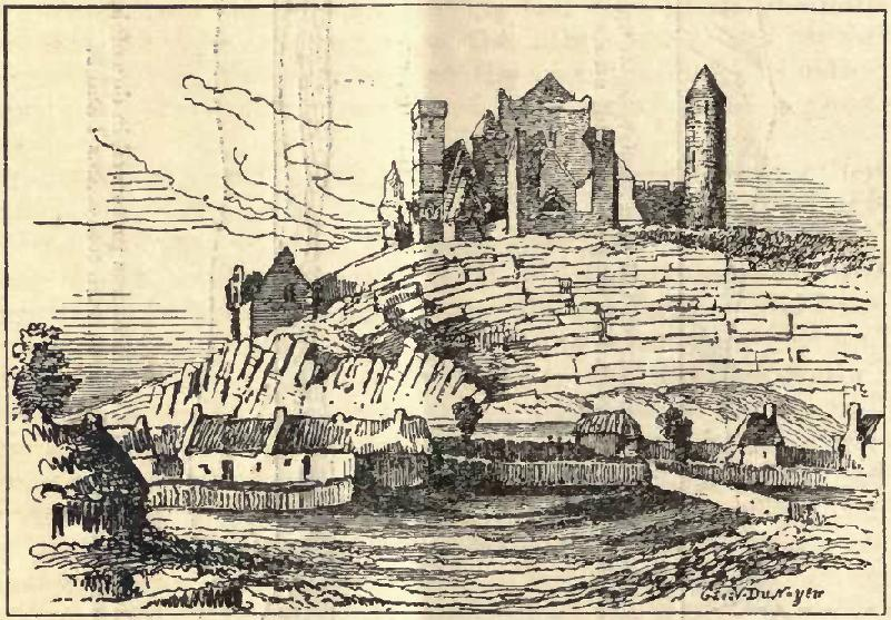 Mid-19th Century drawing of the Rock of Cashel, County Tipperary, Ireland (showing geology of the limestone outcrop) by George Victor Du Noyer (d. 1869).